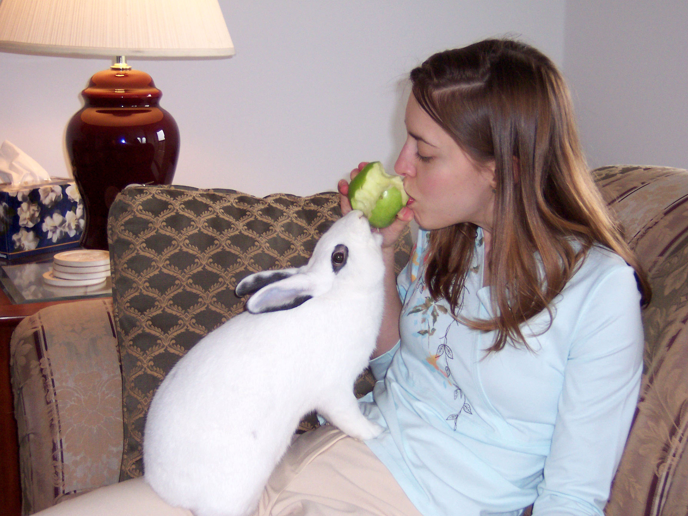 Rabbit (named Mopsy) sharing an apple with his owner.